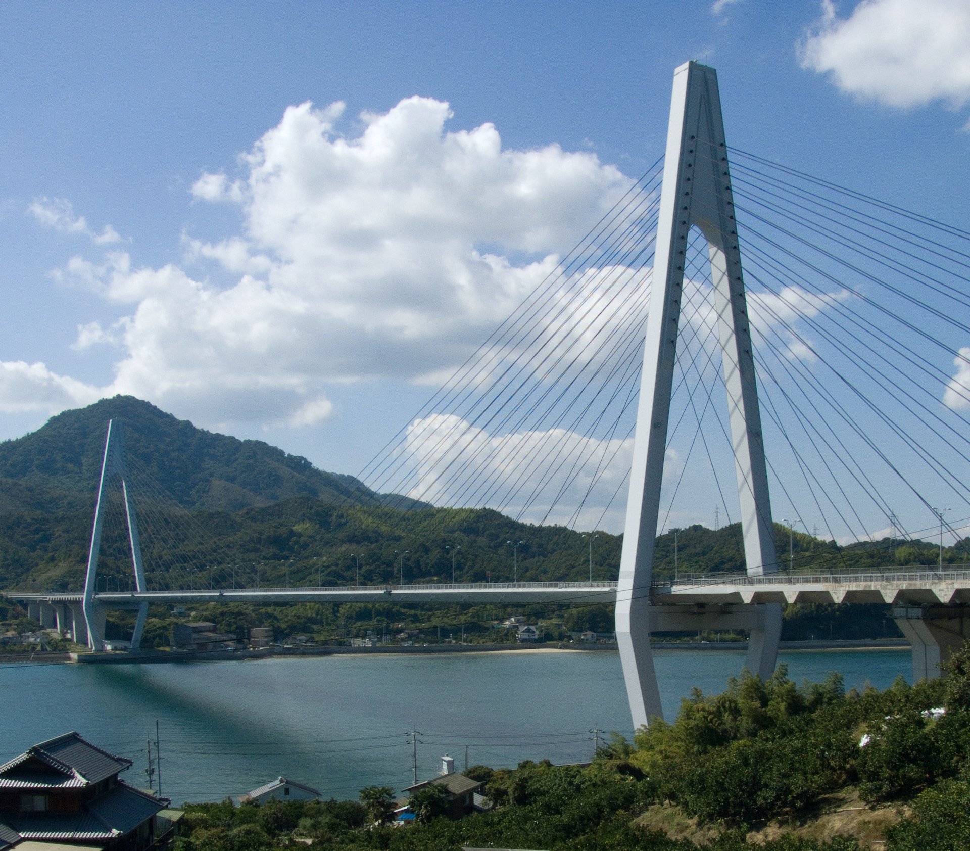 The Ikuchi bridge in Hiroshima Prefecture, Japan